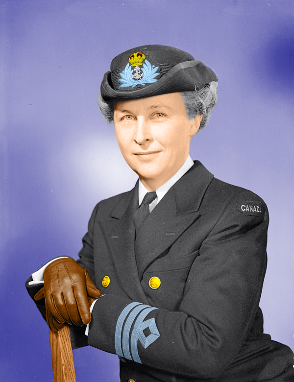 Colourized photo of Adelaide Sinclair